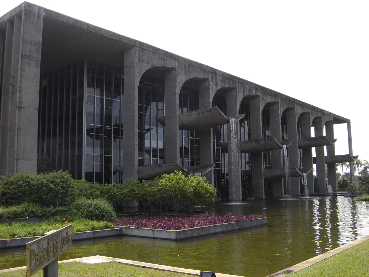 Palácio da Justiça, Brasília, Brazil.